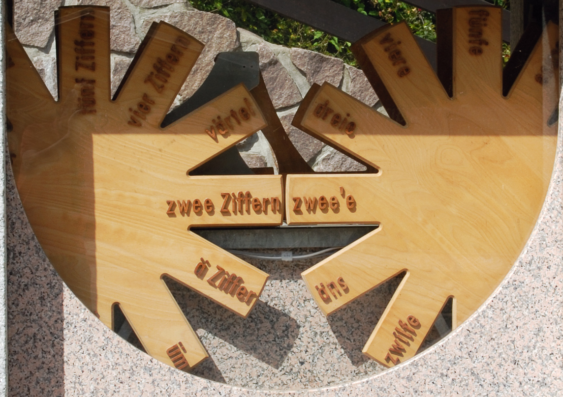 This image shows the dialect clock in Hormersdorf in the Ore Mountains. The clock shows "zwee Ziffern zwee'e" in the Hormersdorf Erzgebirgisch dialect meaning 01:10 (literally "two Ziffers of the second hour", a Ziffer being five minutes, the second hour being 01:00 to 02:00 or 13:00 to 14:00 in daytime). The left-hand wheel has twelve cogs, each showing a five minute interval (a Ziffer), from bottom to top: üm = at or exactly; ä Ziffer = one Ziffer or five minutes; zwee Ziffern = two Ziffer or ten minutes; värtel = quarter of an hour or fifteen minutes; vier Ziffern = four Ziffer or twenty minutes; fünf Ziffern = five Ziffer or twenty-five minutes; (remaining cogs are out of view) The right-hand wheel also has twelve cogs, each showing a single hour, from bottom to top: zwilfe = twelve (or "of the twelfth hour"); äns = one (or "of the first hour"); zwee'e = two (or "of the second hour"); dreie = three; viere = four; fünfe = five; (remaining cogs are out of view)